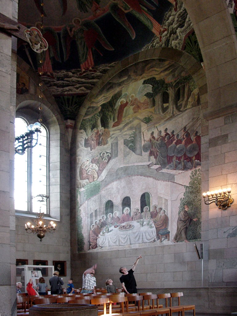 Viborg, Denmark, cathedral, fresco Gethsemane and Last Supper